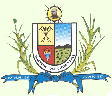 J.A. Paez Municipality shield (Yaracuy), Venezuela